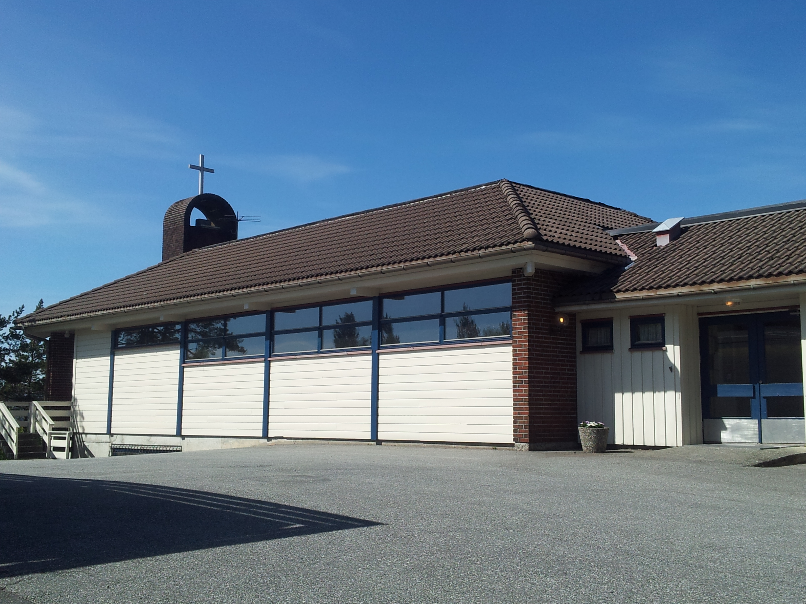 Pentecostal church Betania in Knarvik, Norway